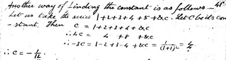 Snippet from Srinivasa Ramanujan's first notebook, chapter 8, concerning an alternate derivation of 1 + 2 + 3 + 4 + ⋯ = −1/12